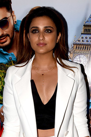 Parineeti Chopra grace Namaste England bash, June 2018.